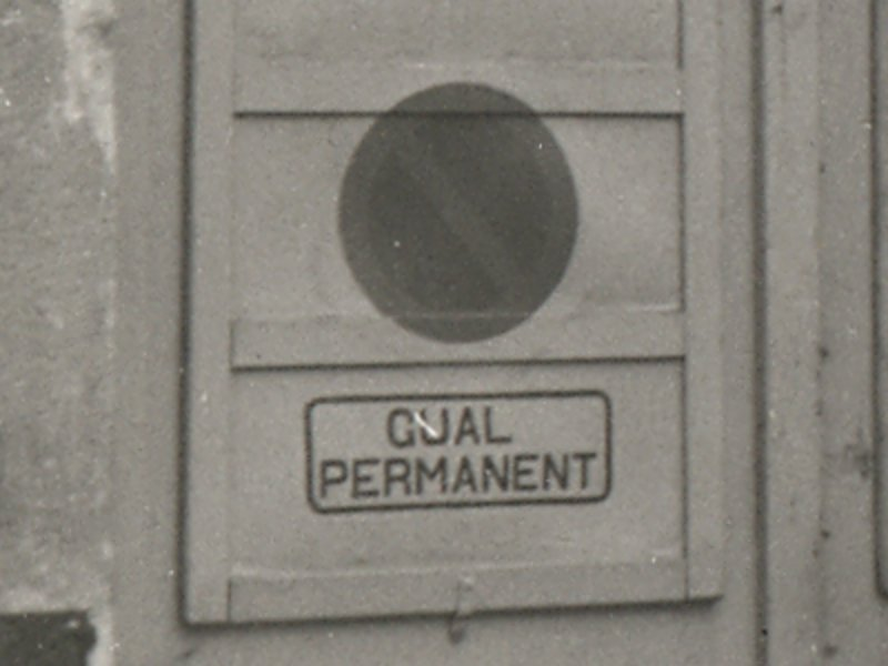 Gual Permanent